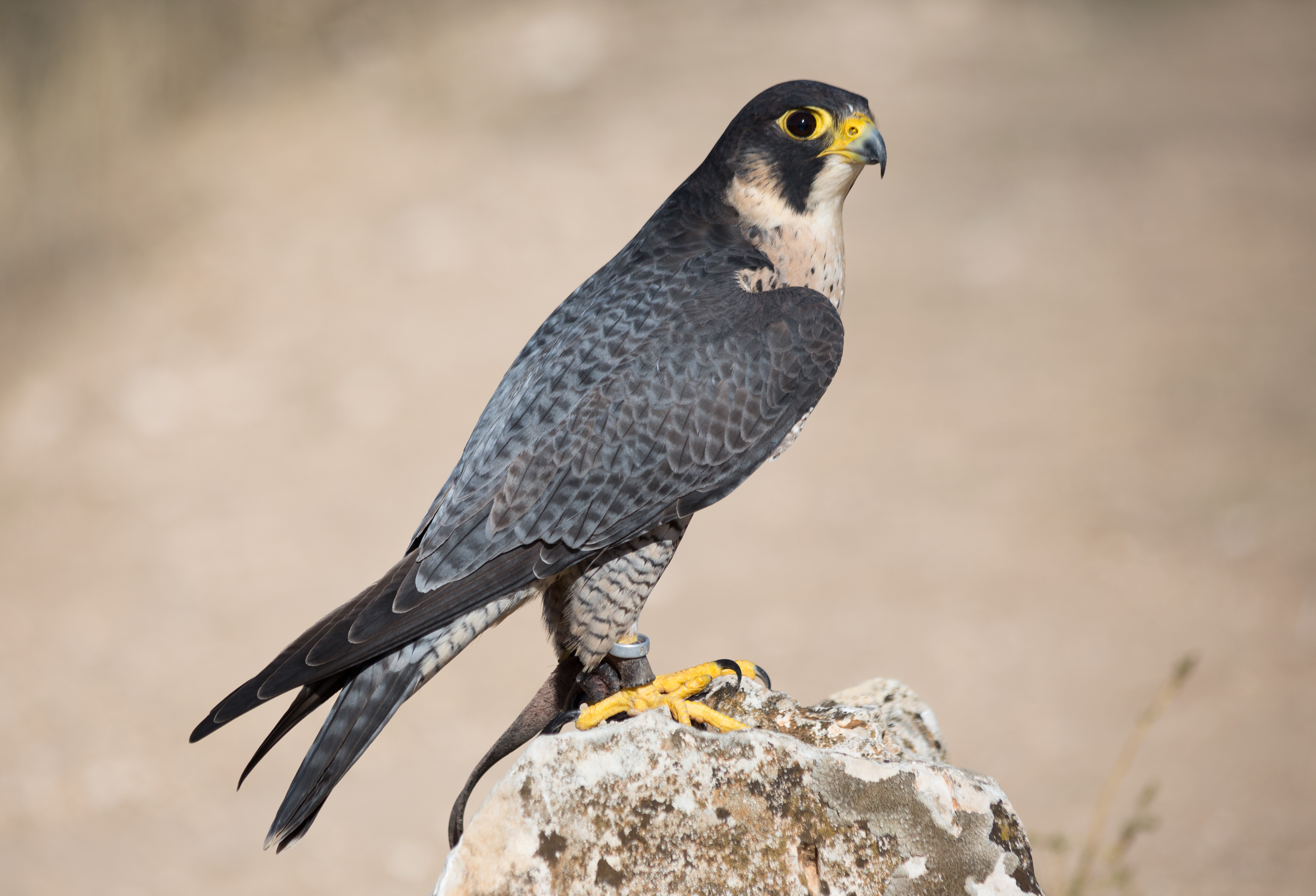 Captive peregrine falcon (Falco peregrinus) in the Community of Madrid, Spain.